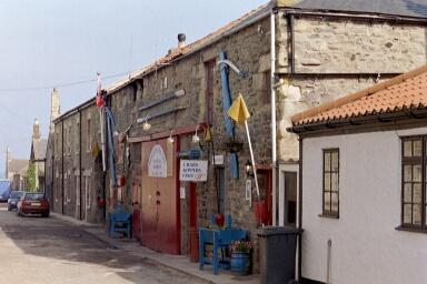 The place in Seahouses who say they "invented" kippering! Photo taken by Nevilley 22:50 Jan 29, 2003 (UTC) October 2002